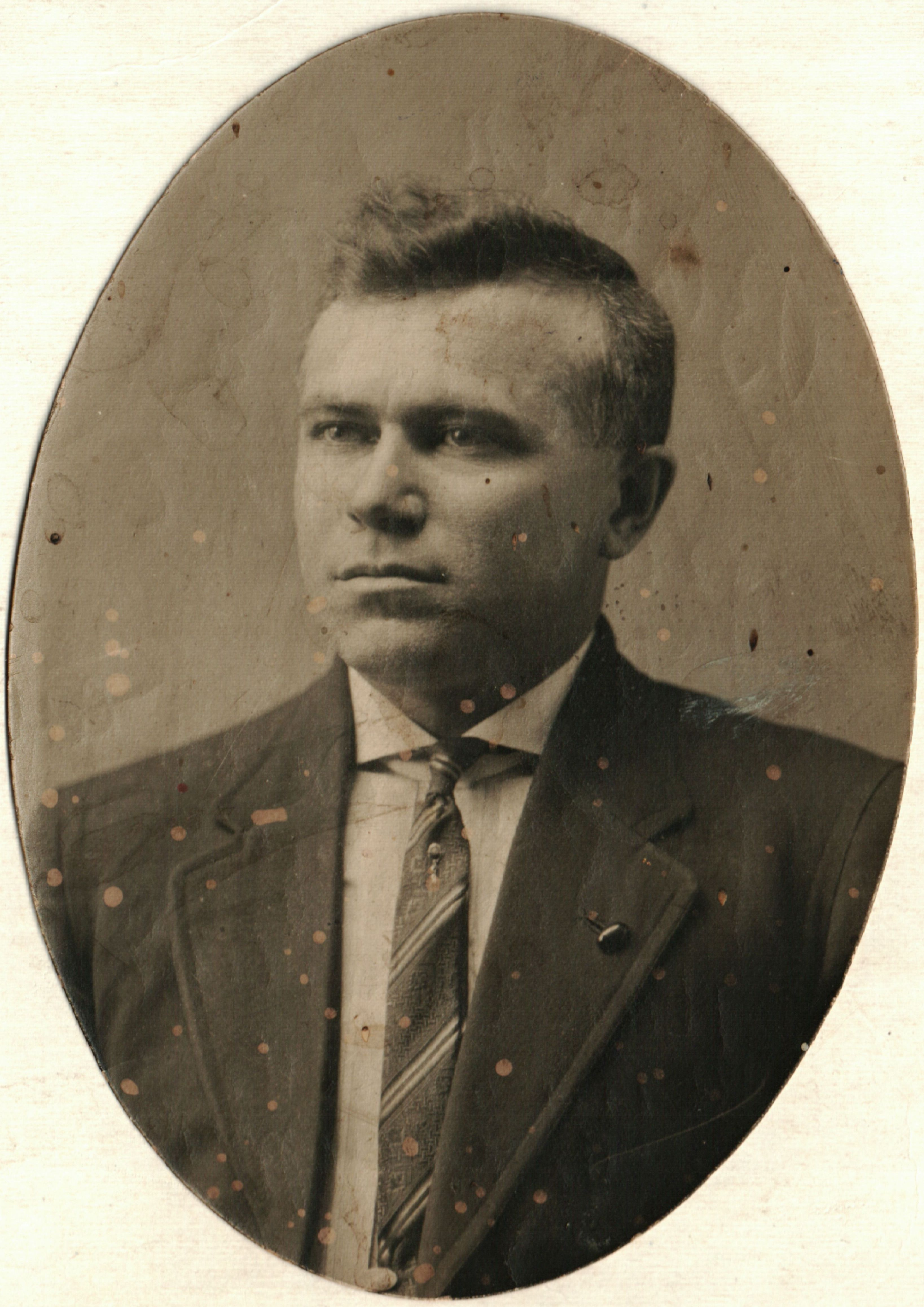 Vasil Kasov